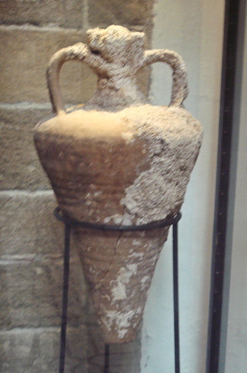 Amphora_of_the_Agora_K109_type_Agean_sea_3rd_4th_century_CE_found_between_Mogador_and_Pharaon_islands.